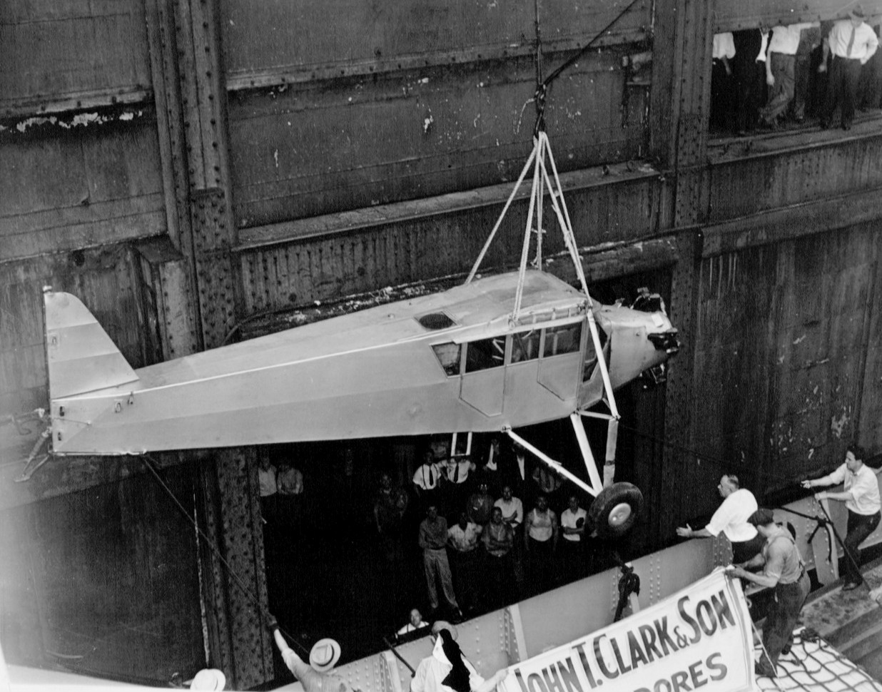 Photo of aviator Douglas "Wrong Way" Corrigan's plane returning to the US via ship. A search was done for original copyright registrations in artwork for the year 1938. There were no listings for any business or concern with "Acme" in its name. Renewals for periodicals and artwork were also checked for the years 1965 and 1966. There were no renewals for the newspaper Eugene Guard or for Acme Newspictures. There's no evidence of currentcopyright for this photo.